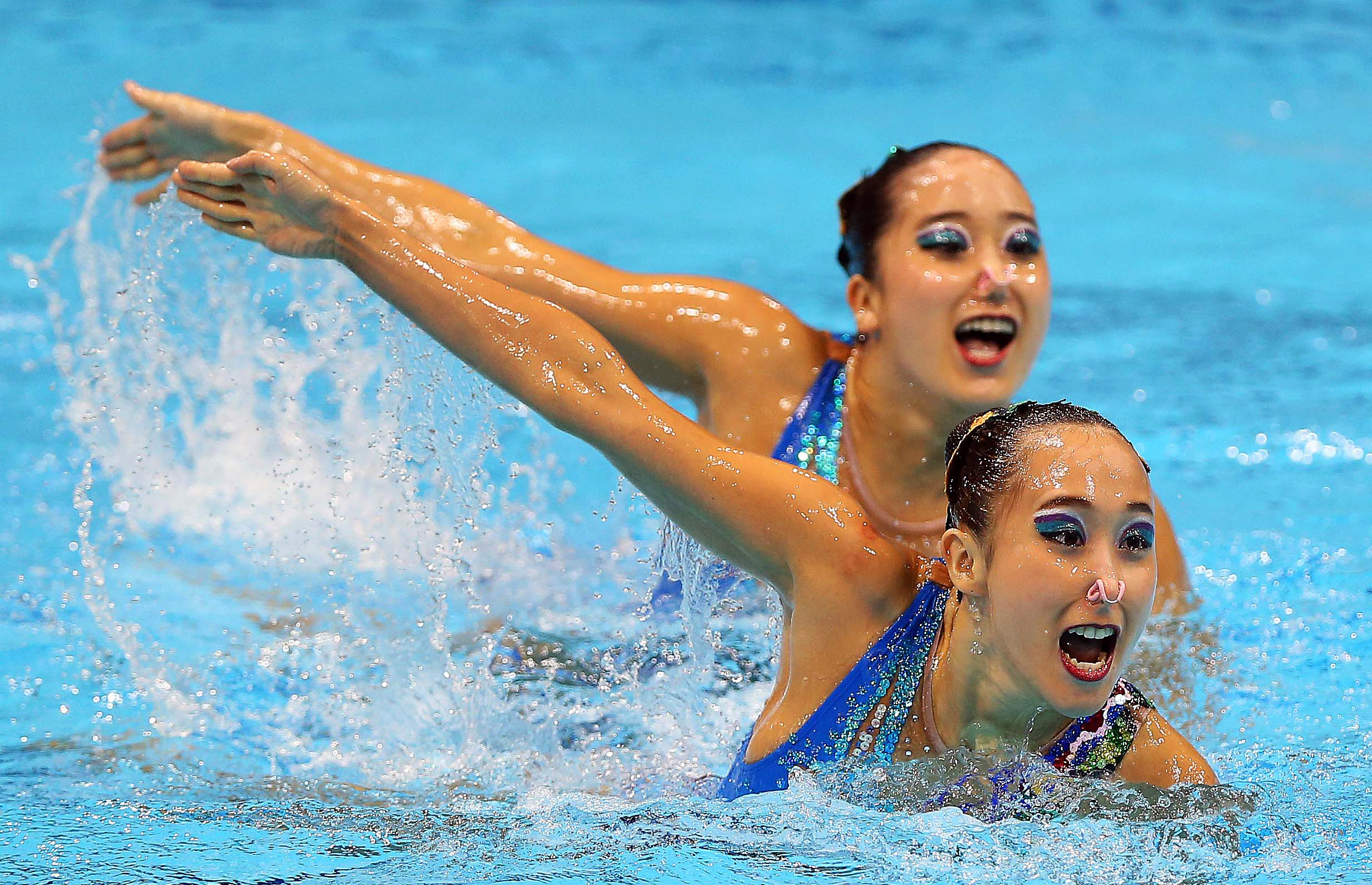 2012 London Olympic Games Korea Synchronised Swimming Team, Park Hyunha and Park Hyunsun. 2012.08.06. Photo by Korean Olympic Committee Ministry of Culture, Sports and Tourism Korean Culture and Information Service 2012 런던 올림픽 여자 싱크로나이즈 스위밍 박현선-박현아 자매 사진제공 - 대한체육회 문화체육관광부 해외문화홍보원